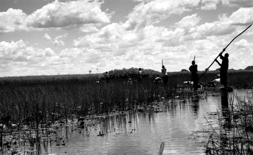 Fishermen on the Okavango Delta (Namibia and Botsuana)